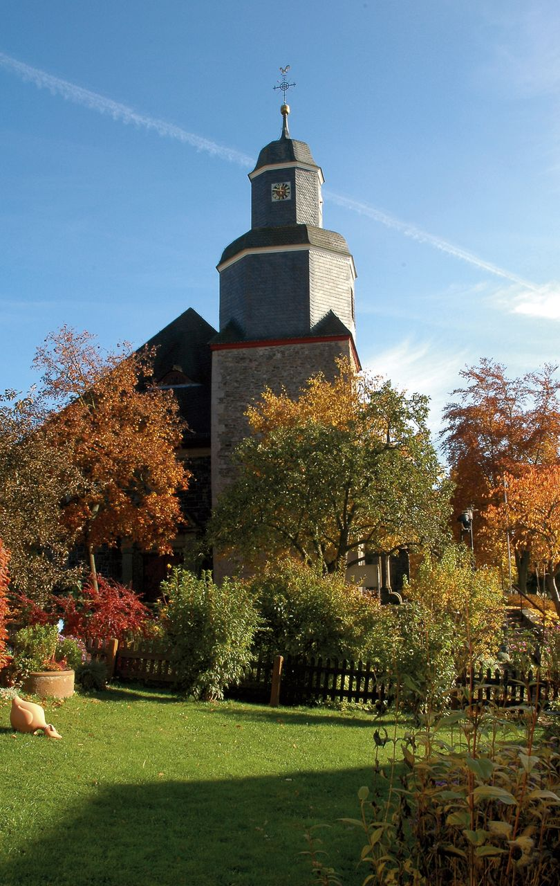 Pfarrkirche St. Goar Hesborn